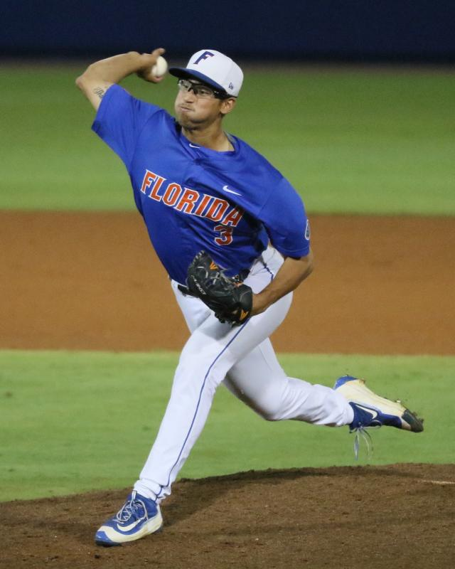 FSU Florida State Seminoles.vs Florida Gators, Gators Win 7-0&ADVANCE TO CWS., in front of 4475 at (McKethan Stadium) Gainesville FL